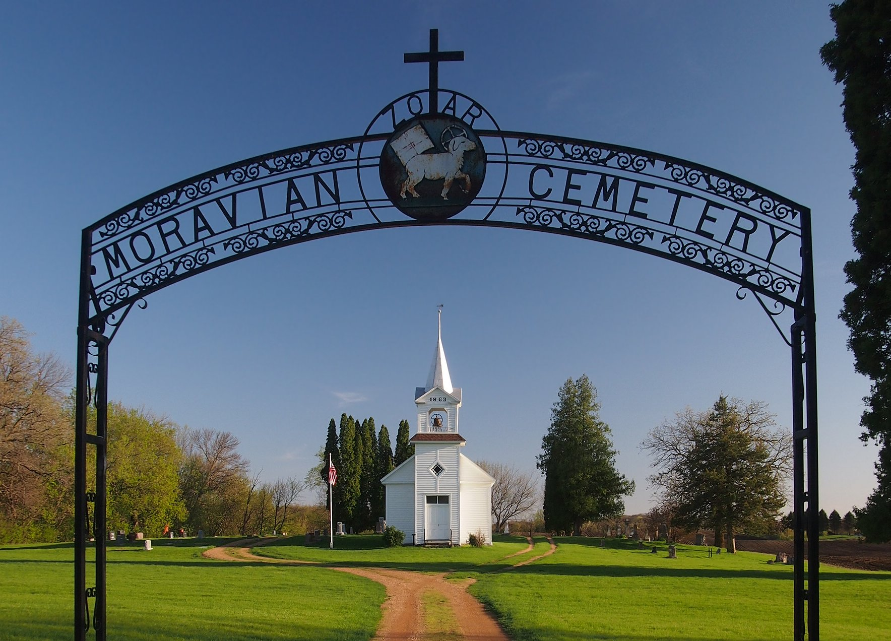 Zoar Moravian Church and cemetery gate, 8265 County Highway 10, Laketown Township, Minnesota, USA. Viewed from the north.